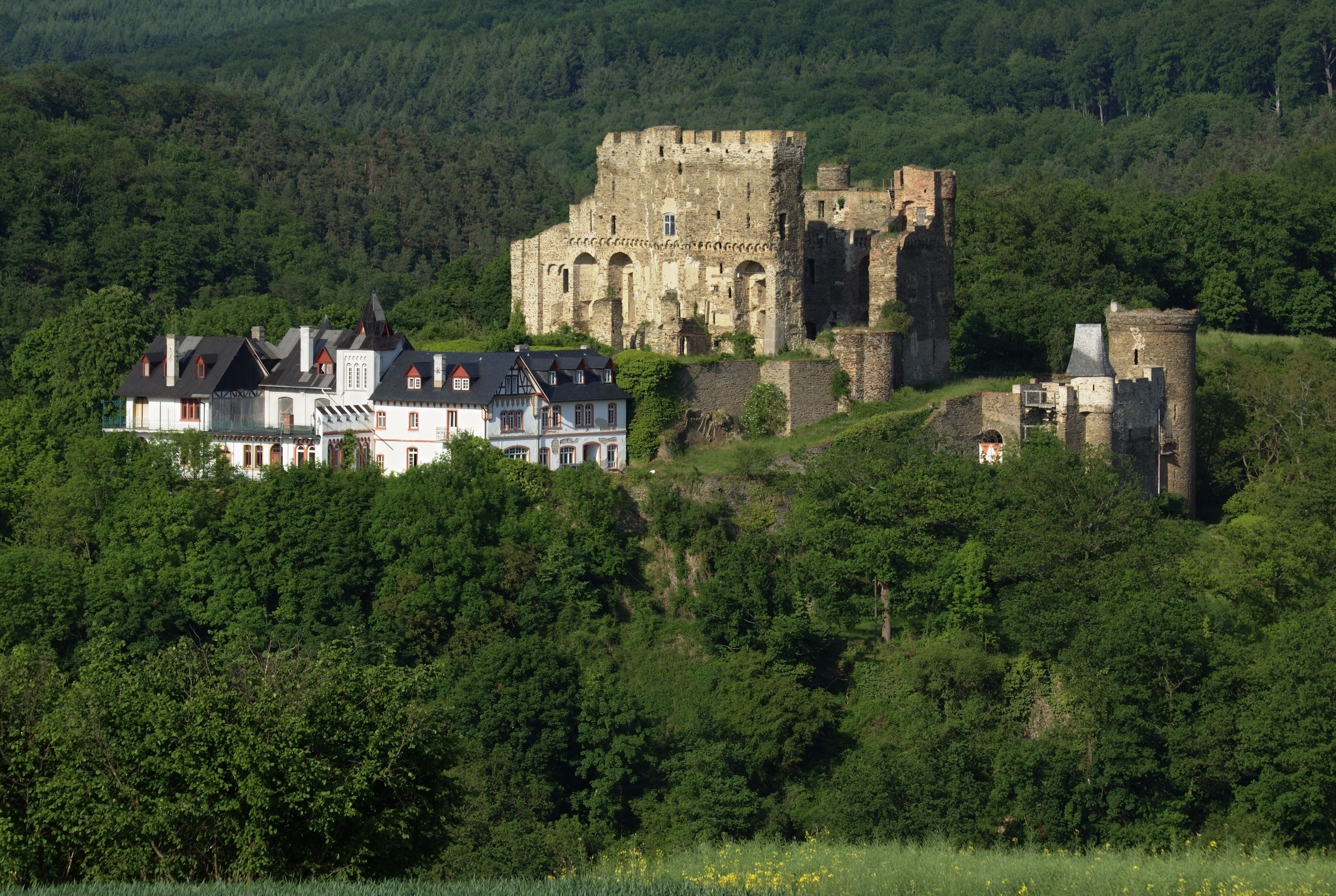 Reichenberg castle at Reichenberg near St. Goarshausen, Germany. View from south-western direction.